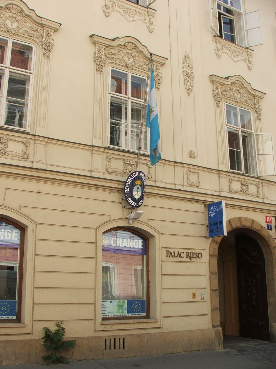 Ries Palace - and national flag at the chancery of the Embassy of Argentina in Prague - Nové Město, Czechia Panská street.